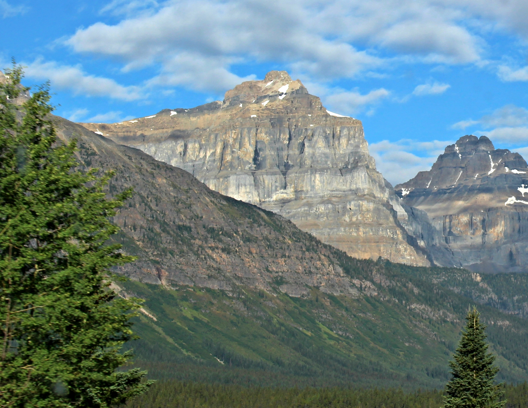 Epaulette Mountain from Waterfowl lakes, Banff National Park, Canada